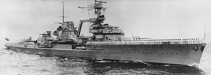 German light cruiser Leipzig